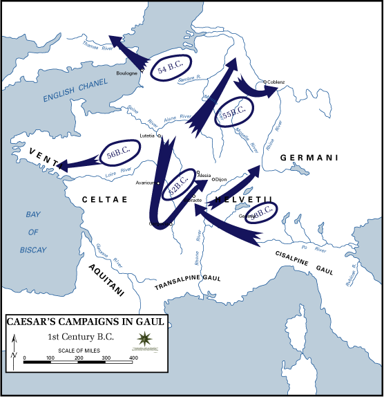 Maps of Caesar's campaigns in Gaul